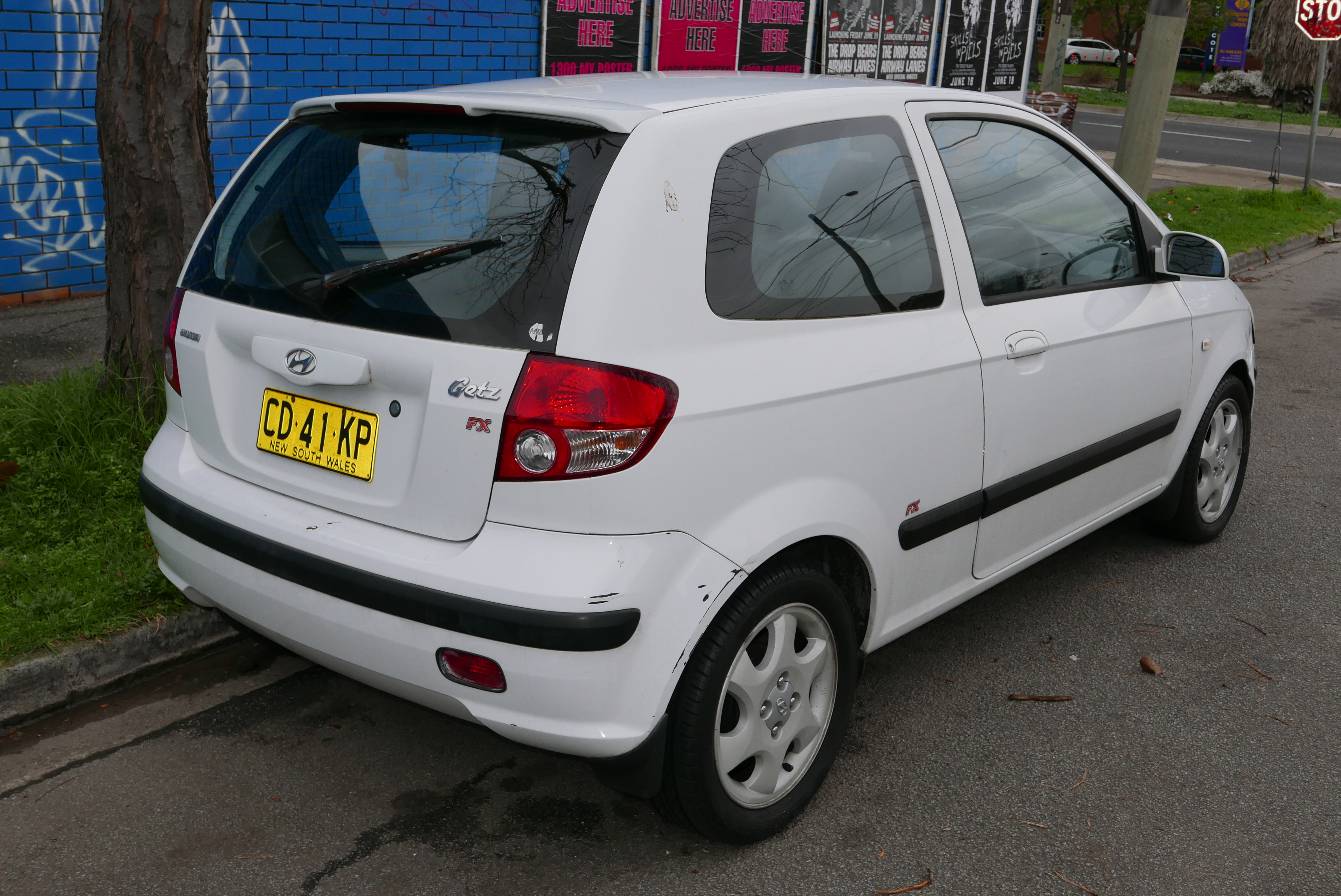 2002 Hyundai Getz (TB) FX 3-door hatchback. Photographed in Northcote, Victoria, Australia.